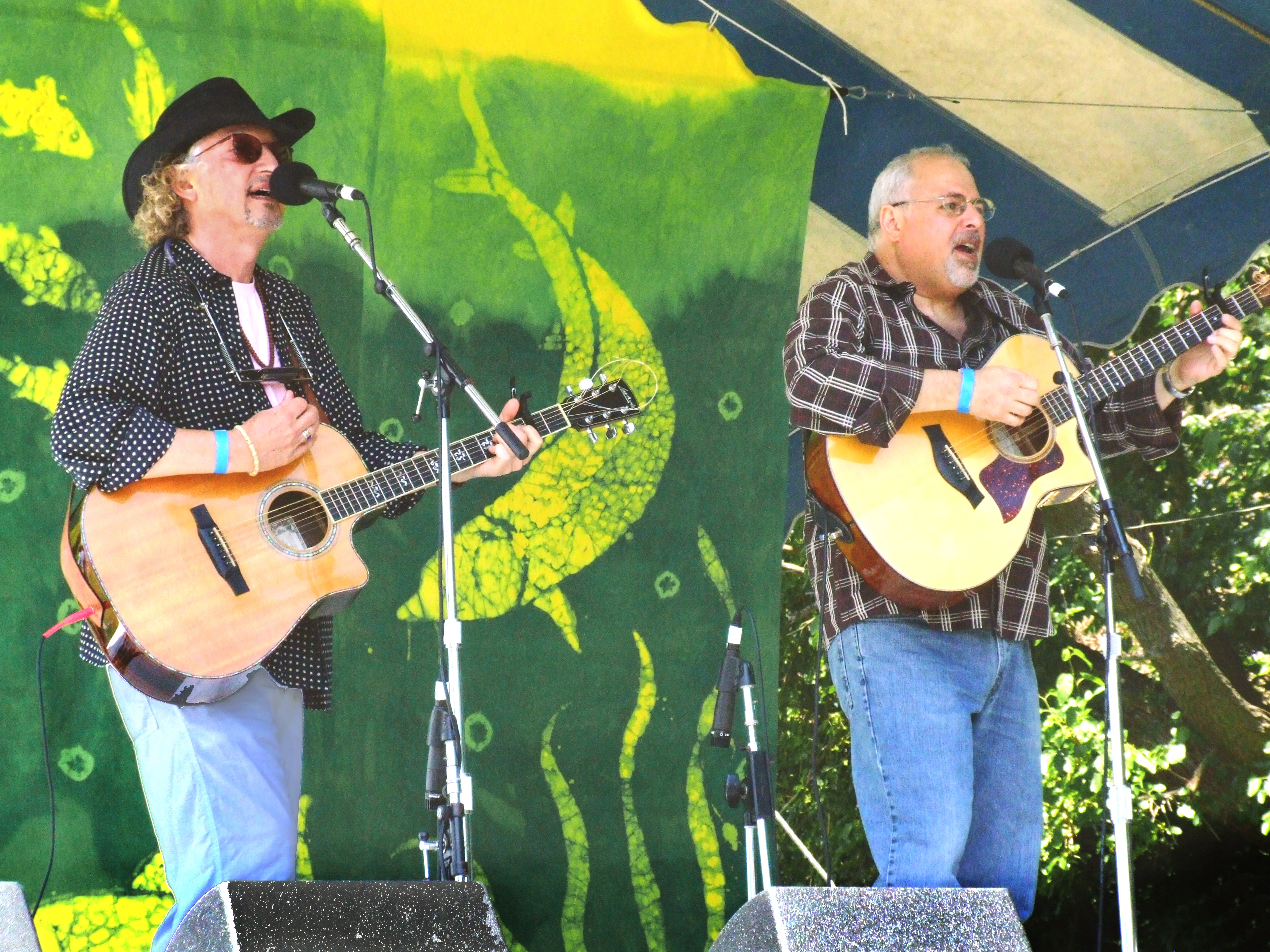 Aztec Two-Step at the Clearwater Festival 2007 (New York) on 6-16-07 photo by Anthony Pepitone. Rex Fowler at left and Neal Shulman on the right.